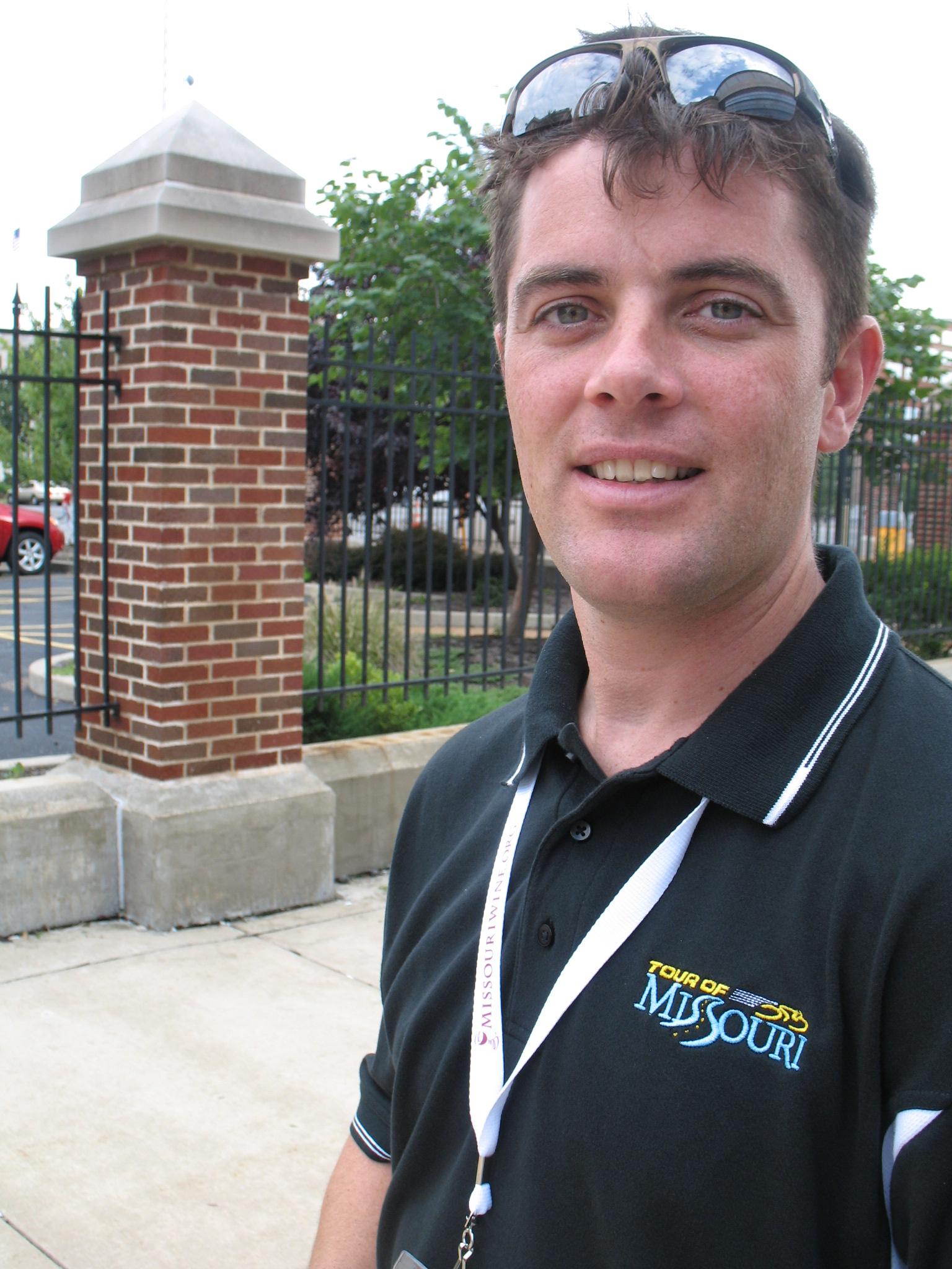 Kevin Livingston raced with Lance Amstrong and now plays a key role as Competition Director of the Tour of Missouri.